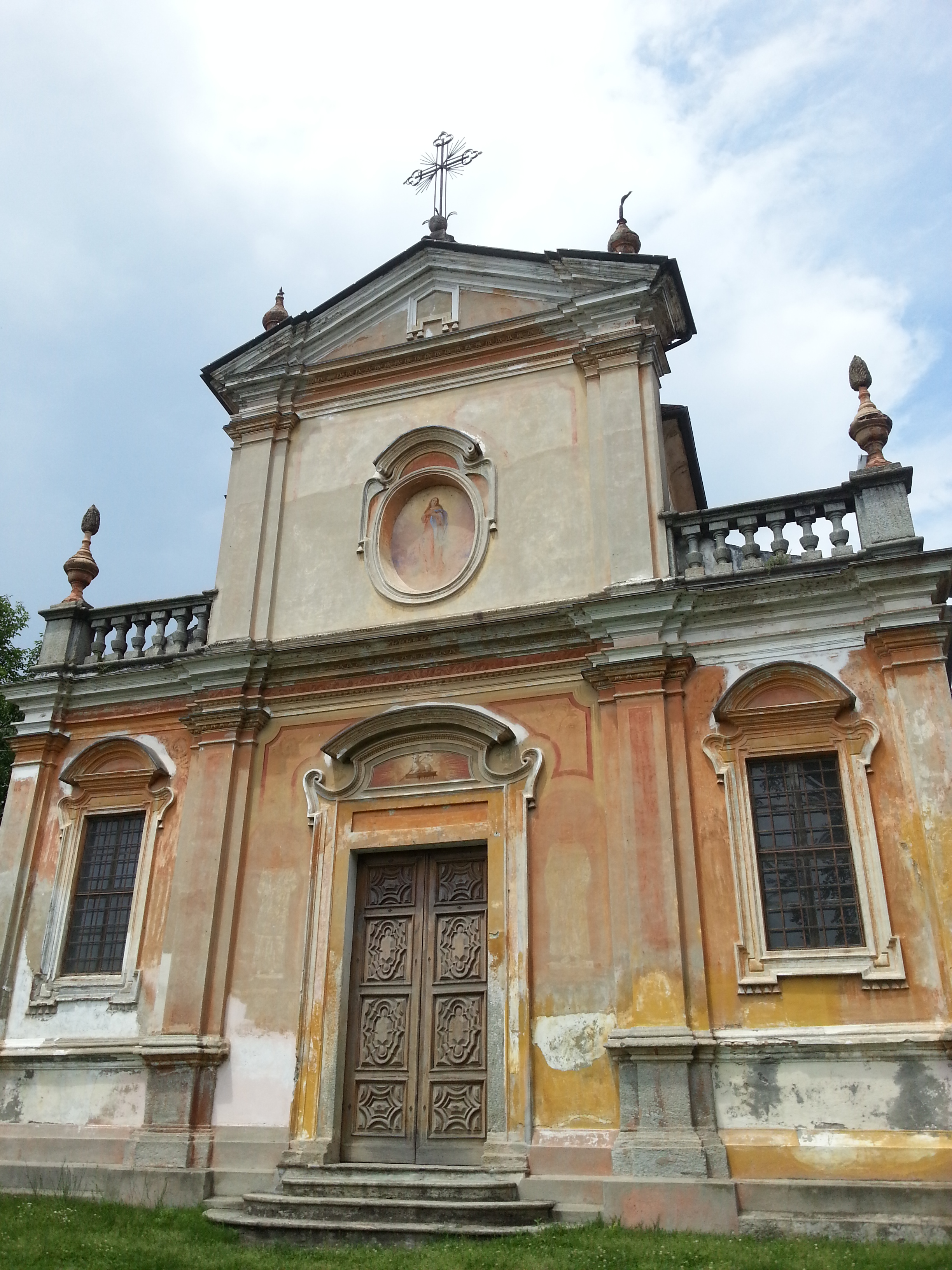 Parish church St Peter's and St Paul's, Burolo, Northern Italy